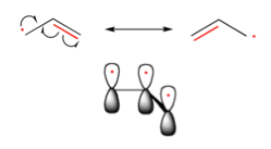 dfsfadfs